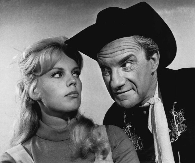 Photo of Marta Kristen (Judy Robinson) and Jonathan Harris (Zachary Smith) from the television program Lost In Space.